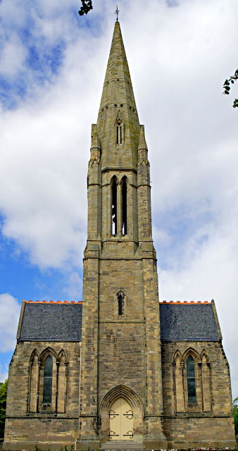 St John's Church, Cupar Cupars Free Church opened in 1878 and winner in the tallest spire race topping out at 160 foot. Renamed St John's in 1900.